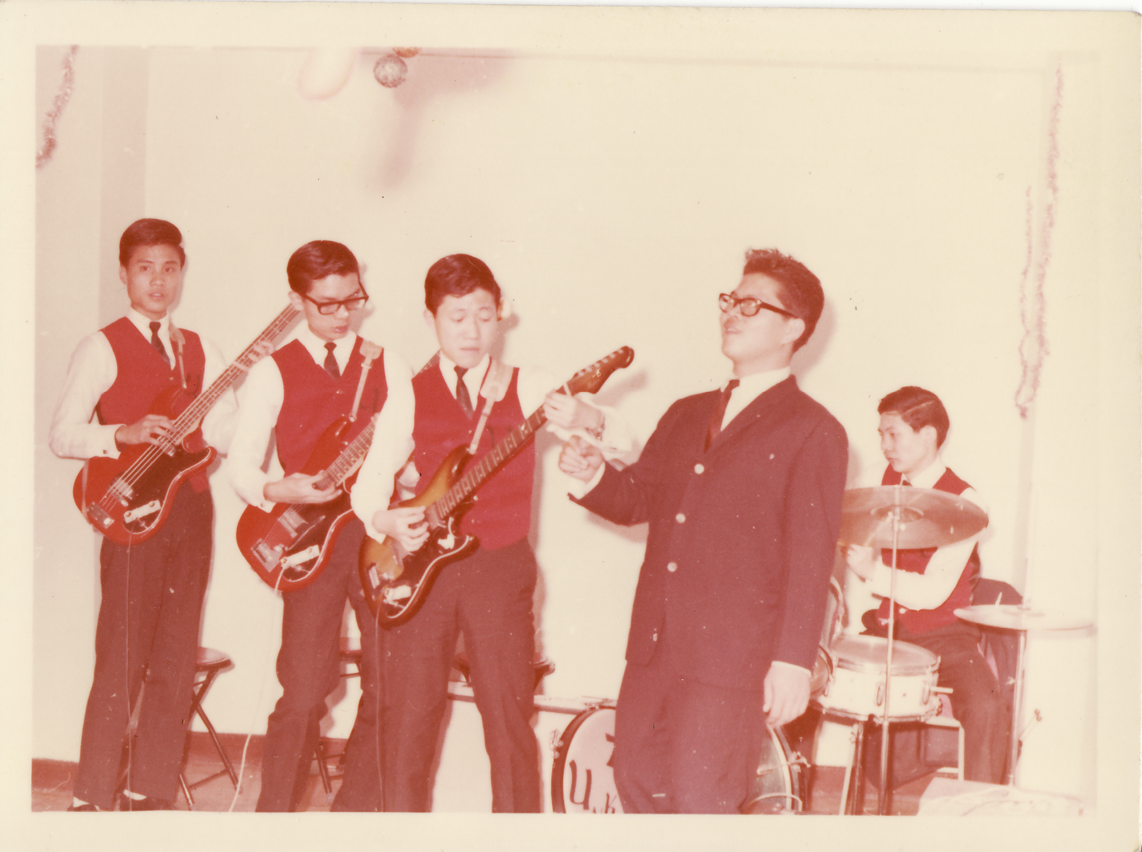 Member of D' Unknown. L to R James Chan (Bass), Chris Yam (Rhythm guitar), Norman Cheng (Lead guitar), Tony Chan (Drum) with singer Sih Chung Yiu